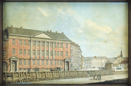 Peschiers Gård in c. 1851 in Copenhagen, Denmark